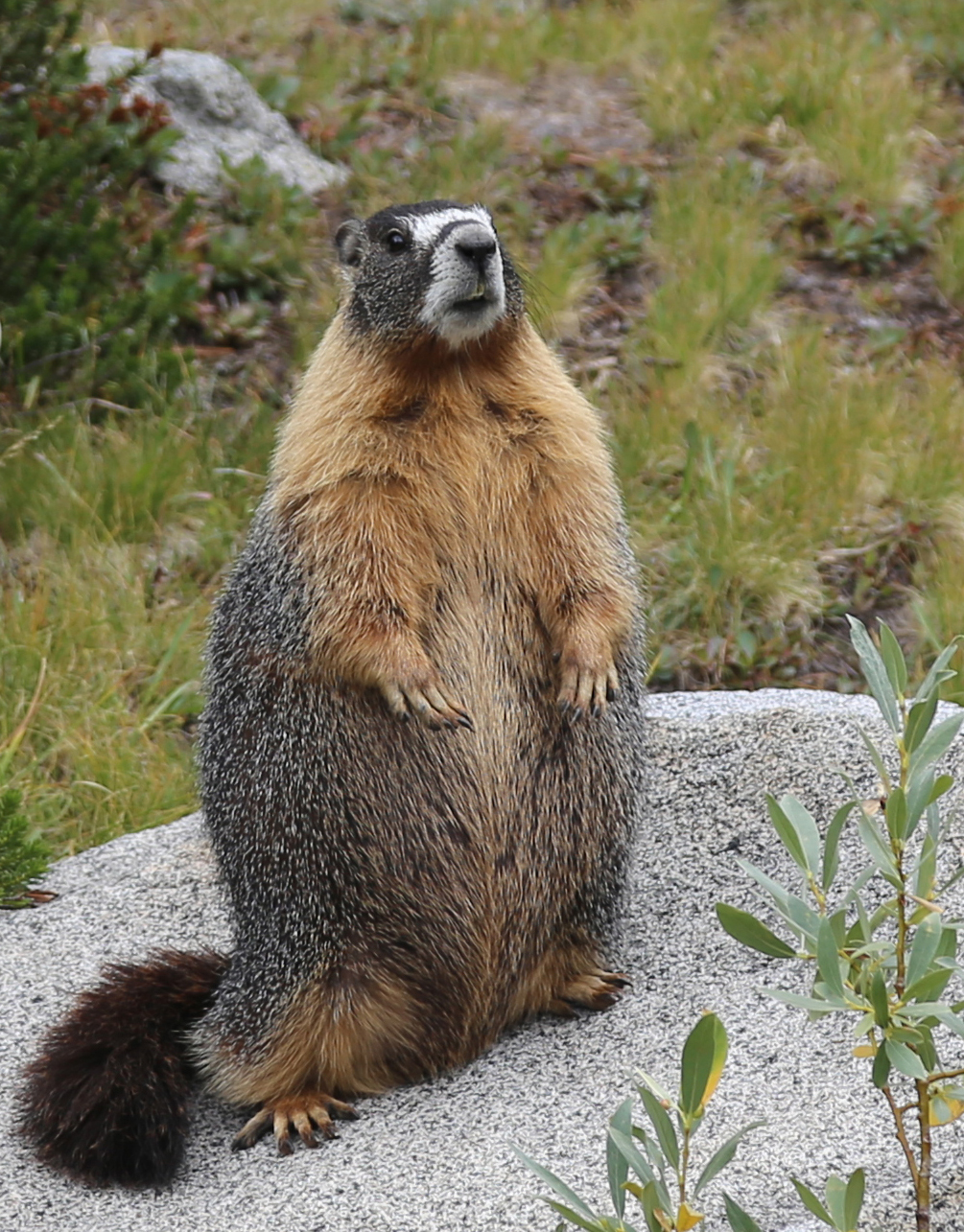 Yellow-bellied marmot (Marmota flaviventris) standing on granite rock next to willow sprig, showing white markings on face and muzzle. In meadow next to Pacific Crest/John Muir Trail, below bowl south of Donahue Pass, Ansel Adams Wilderness, Sierra Nevada mountains, California.